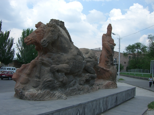 Statue of Arghisti made of Tufa